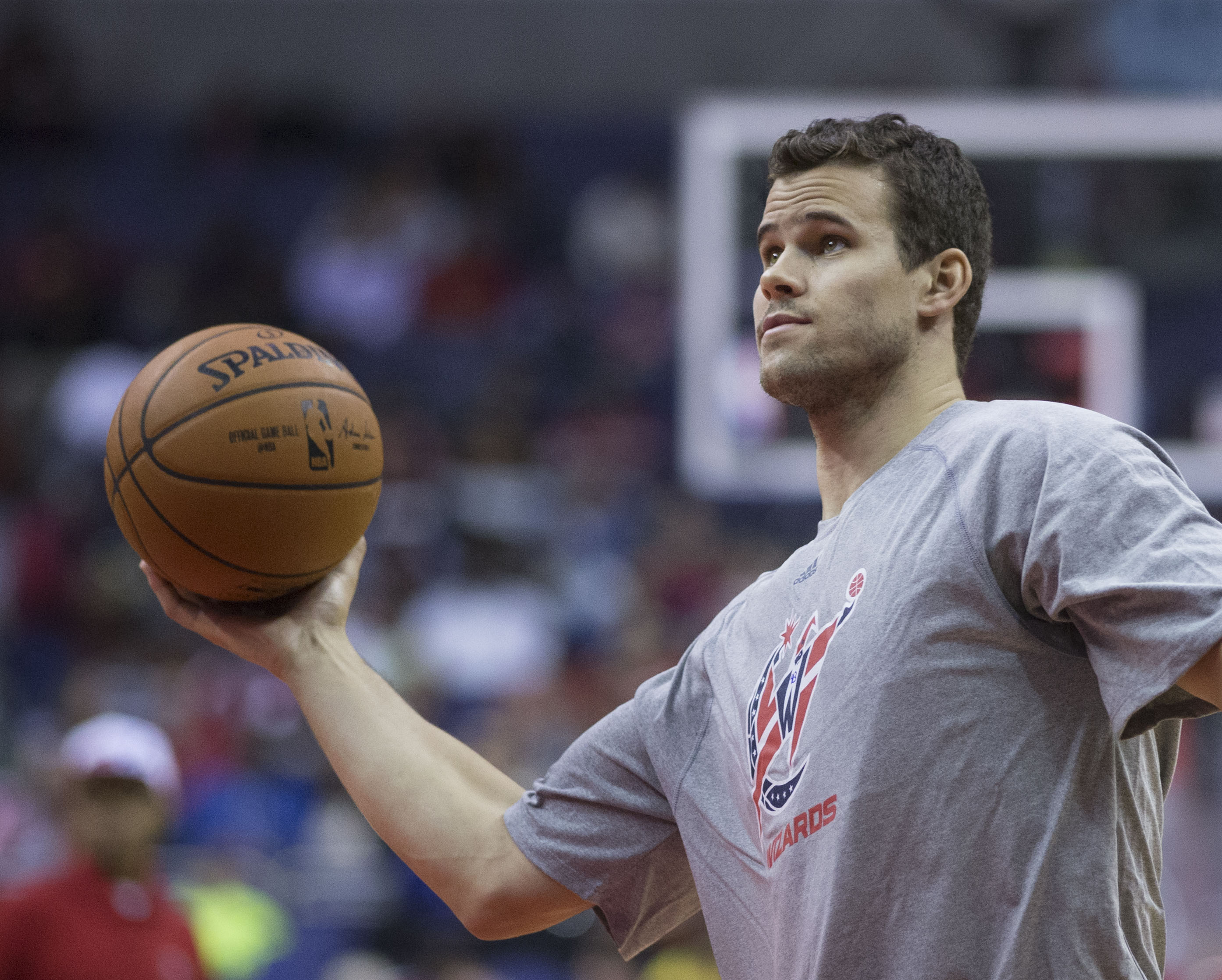 Pacers at Wizards 11/05/14